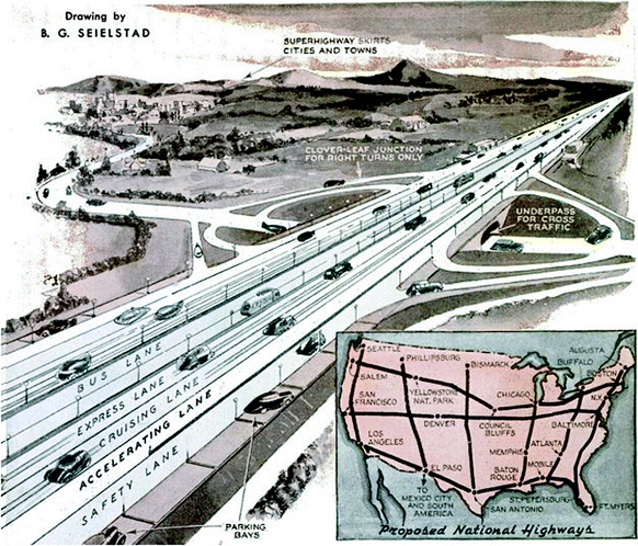 Highway of the future illustration by Benjamin Goodwin Seielstad, Popular Science, May 1938, p. 28.